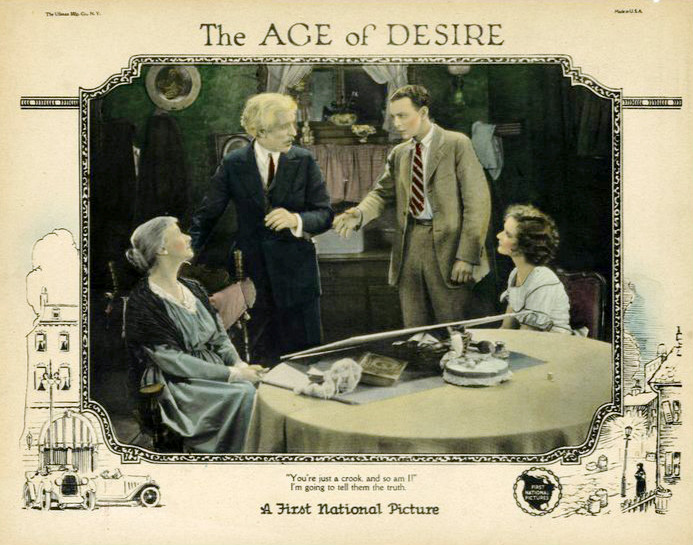 Lobby card for the American drama film The Age of Desire (1923). There are no copyright marks. At left top is The Ullman Mfg. Co., NY (they printed the card). At top right is Made in USA.